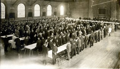 Inaugural luncheon for Bowdoin College president Kenneth C. M. Sills in Sargent Gymnasium, Bowdoin College, 1918. Image courtesy of Bowdoin University Library, Bowdoin College, Brunswick, Maine.